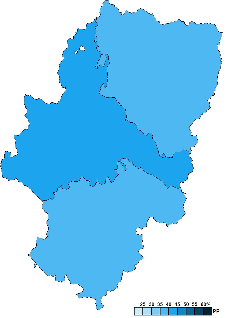 Provincial results for the 2011 Aragonese regional election.